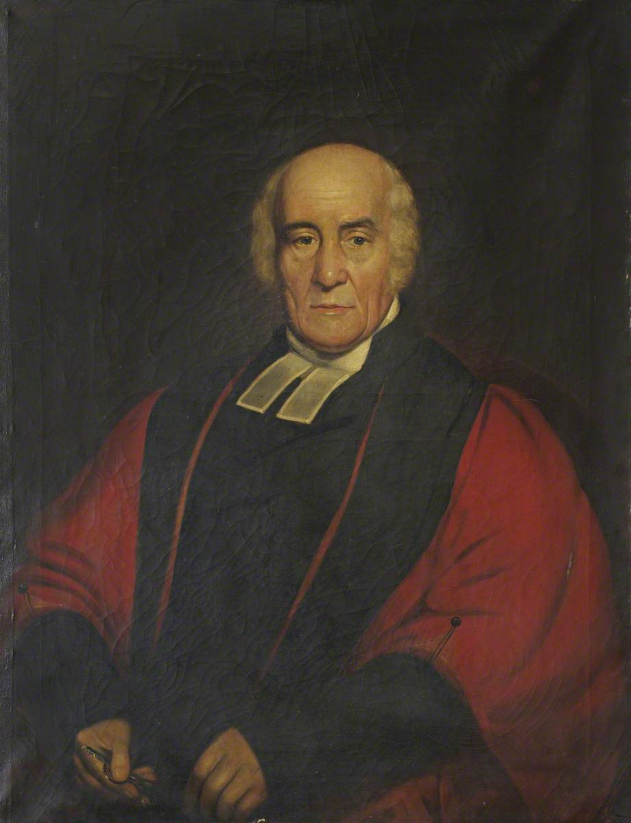 Joseph Proctor (d.1845), Master of St Catharine's College, Cambridge